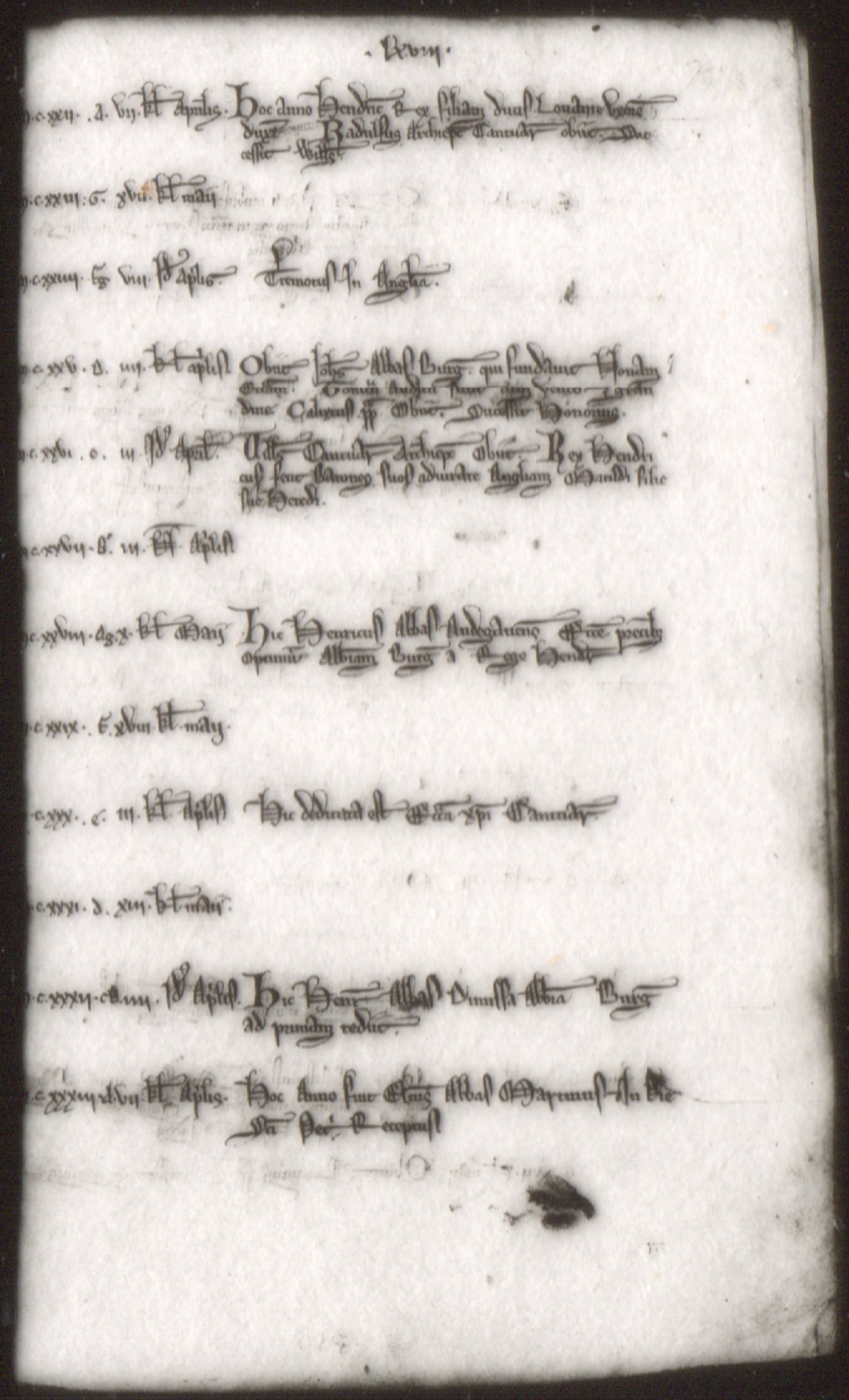 First page of the 13th-century Chronicon Petroburgense, from Peterborough Dean and Chapter Ms 60. Monochrome photograph